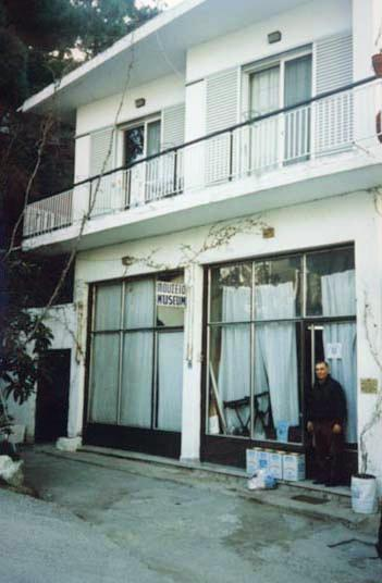 View from outside, image from the Mihalis Tsartsidis Folklore and History Museum, Sidirokastro, Central Macedonia, Greece